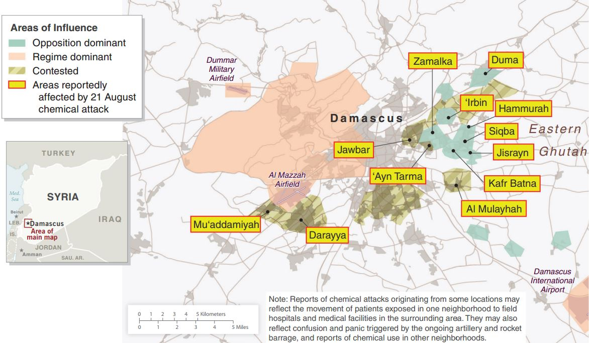 State Department map of Gouta chemical attack